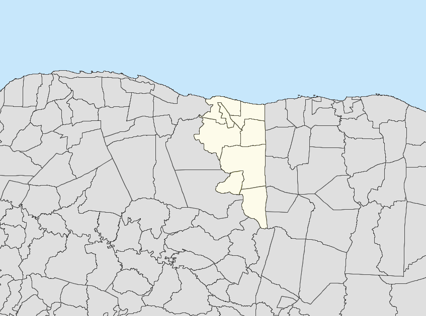 Barrios in the municipality. Map scale is 1:200,000